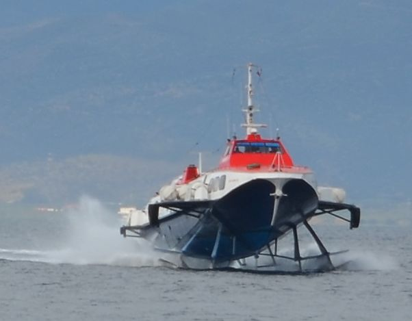 ellenic Seaways Flying Dolphin XVII hydrofoil at full speed approching Hydra Island, Greece. This is the highest of two foils level